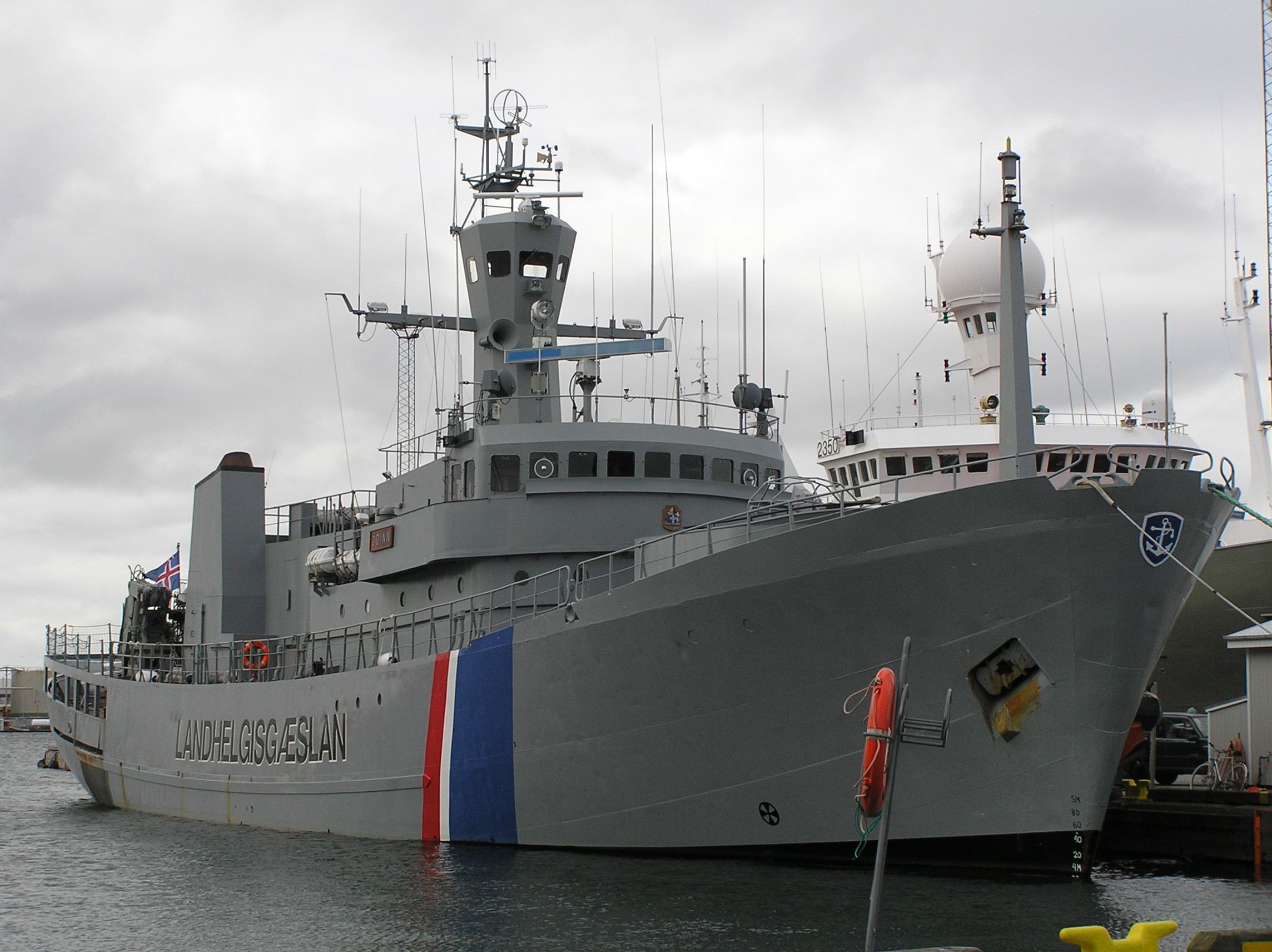 V/s Óðinn after the very last trip abroad in the summer of 2006.